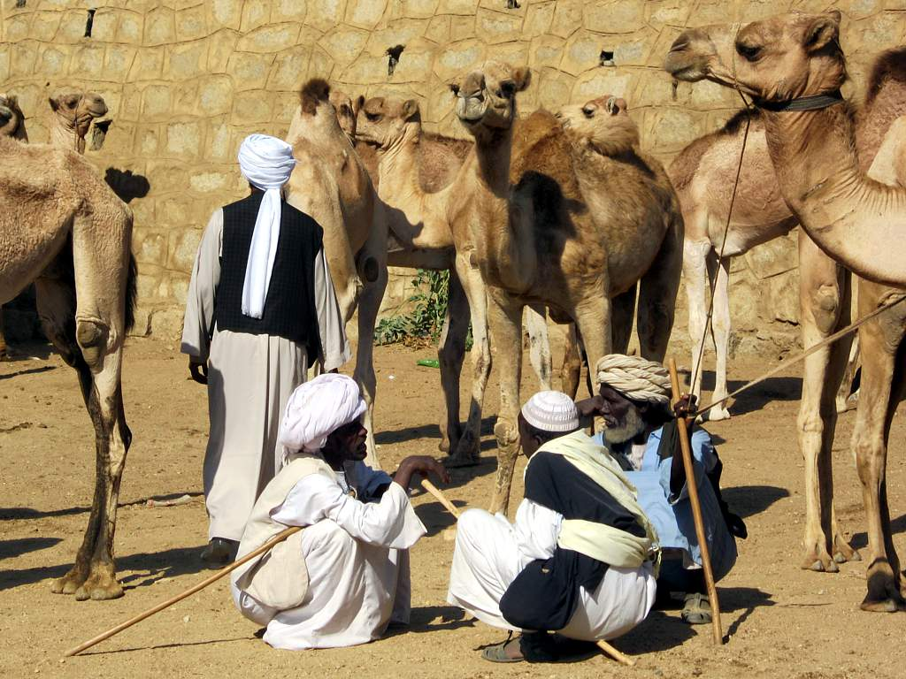 Hundreds of animals can change hands at the Monday camel market on the north side of Keren, Eritrea. A worthy beast may cost several thousand dollars.